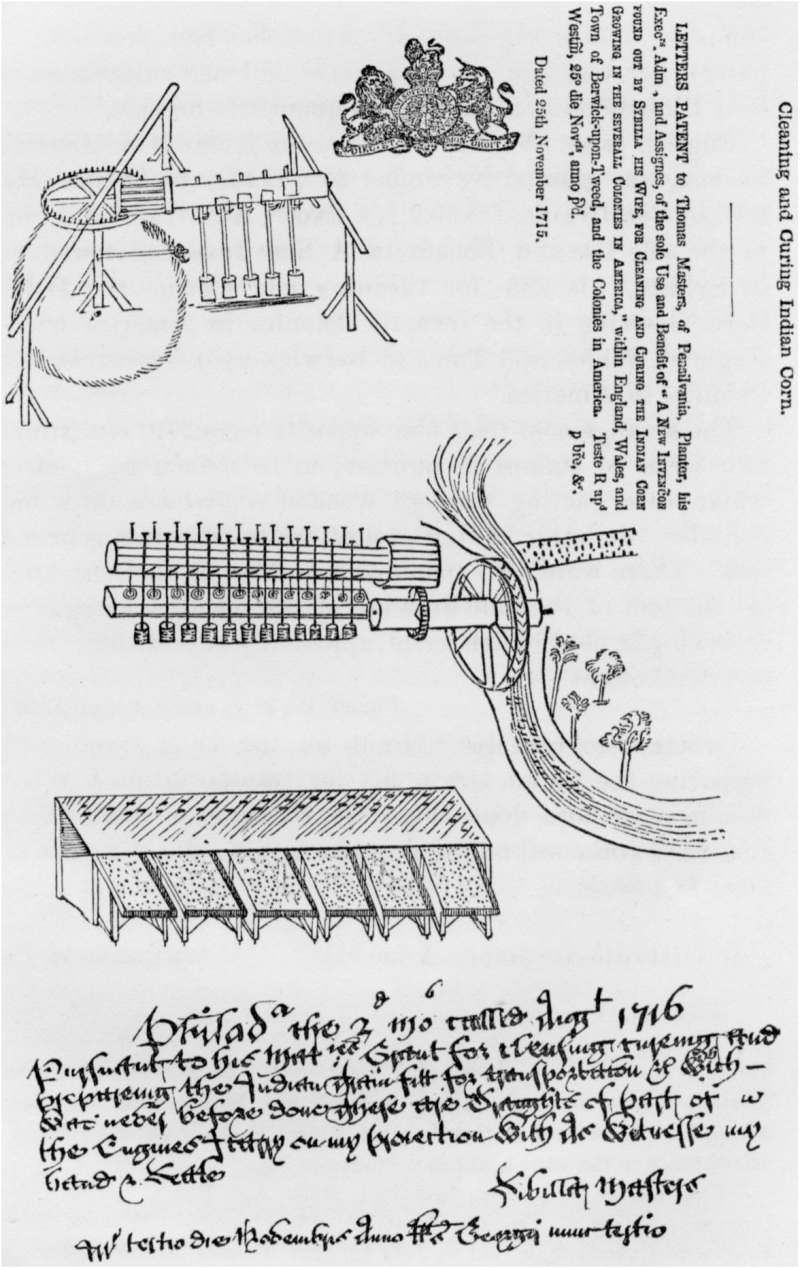 The first patent issued to an English colonist was in 1715 for a new invention created by Philadelphian inventor Sybilla Masters. The patent was filed under her husband’s name, Thomas Masters, because women could not be legally recognized.